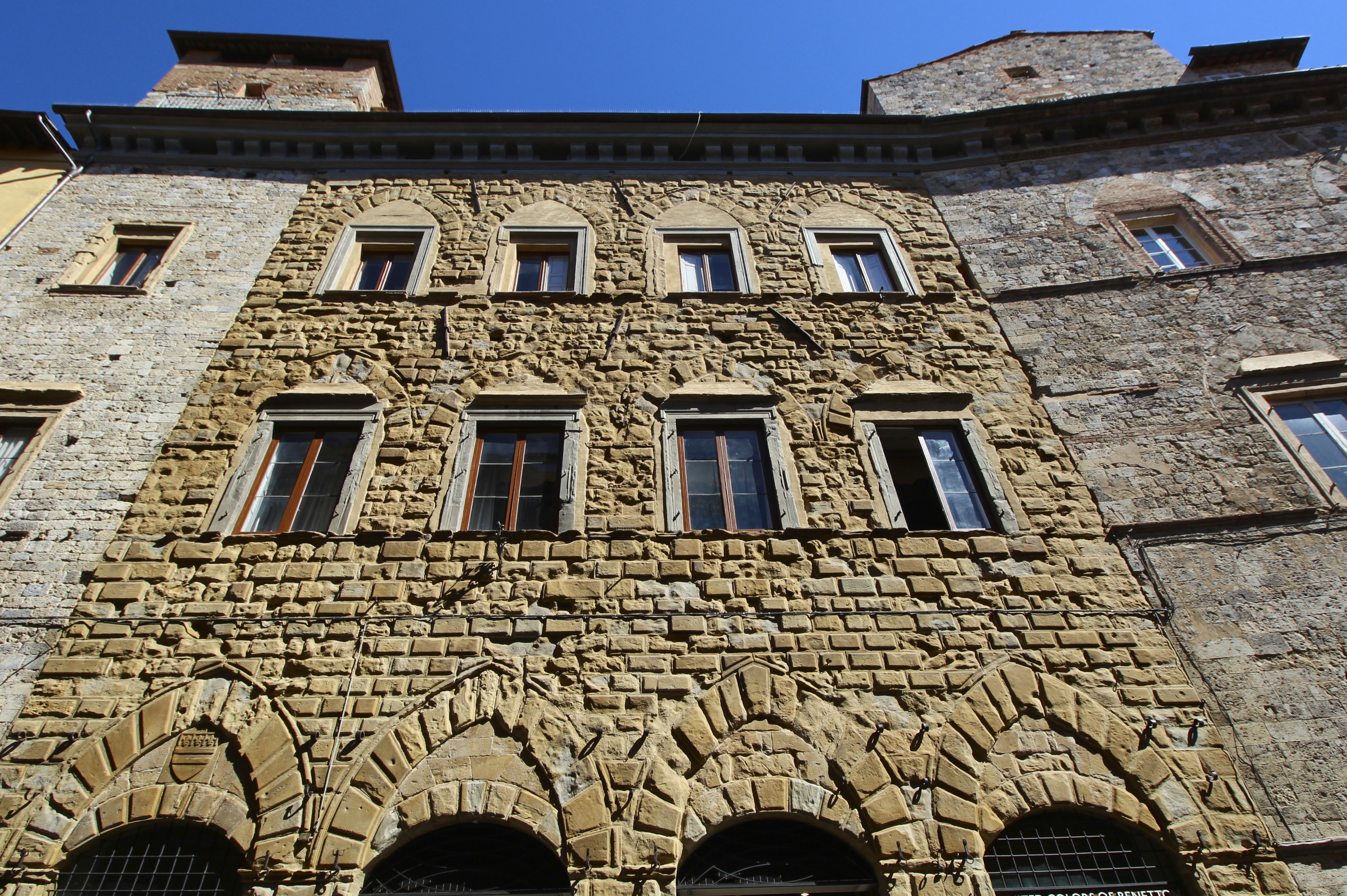 Palazzo Bichi Ruspoli (Castellare dei Rossi), Via Banchi di Sopra, Terzo di Camollia, Siena, Province of Siena, Tuscany, Italy